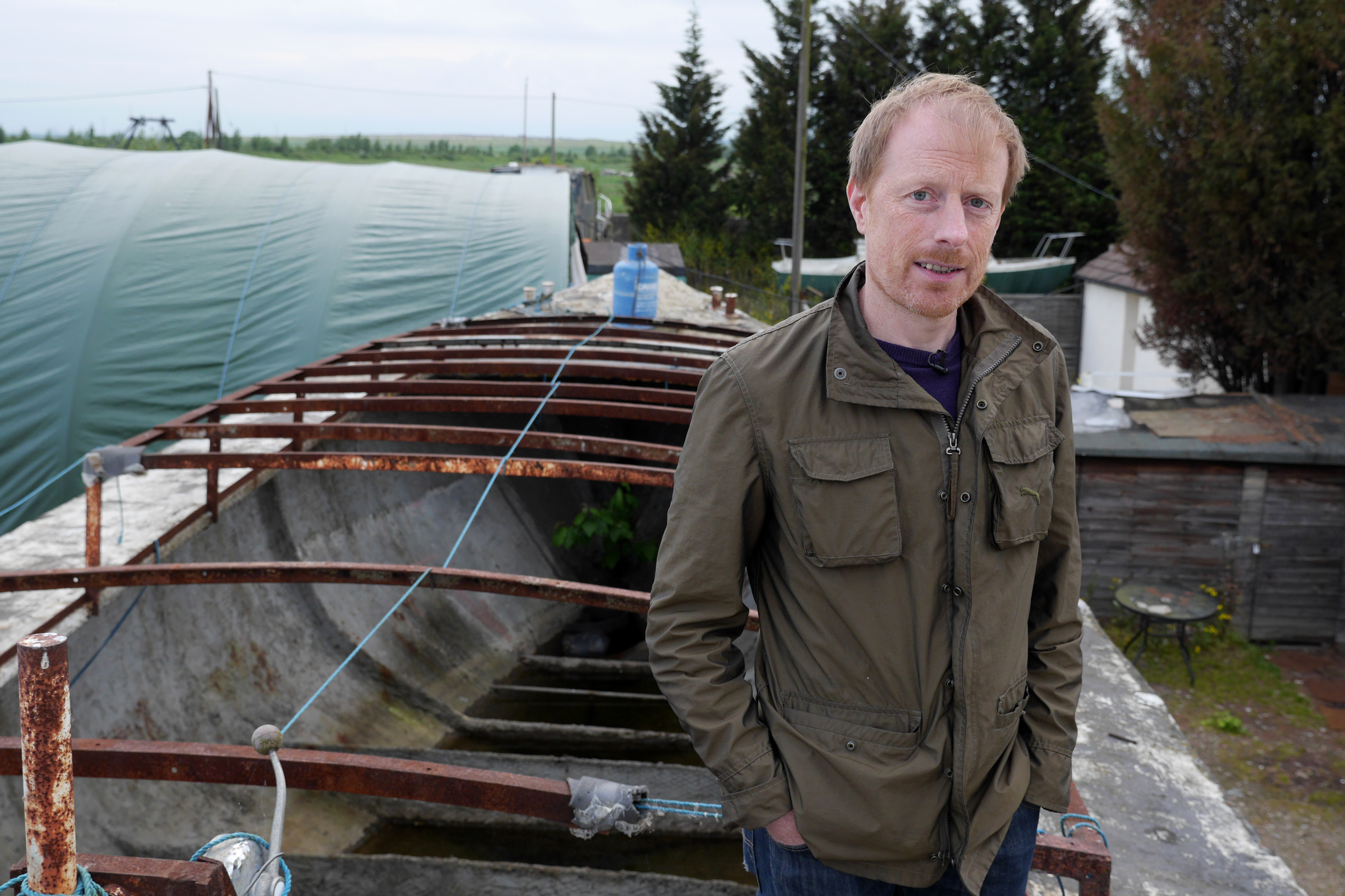 Artist Simon Faithfull onboard the Brioney Victoria